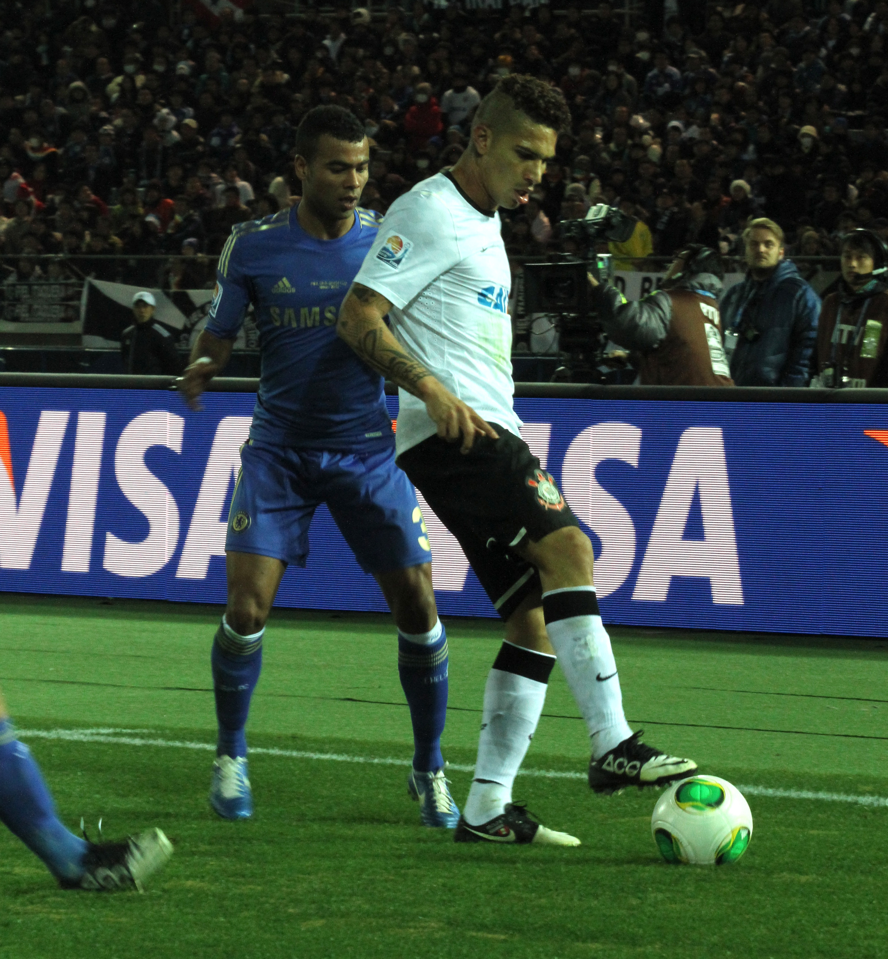 Paulo Guerrero of Corinthians, defended by Ashley Cole of Chelsea.